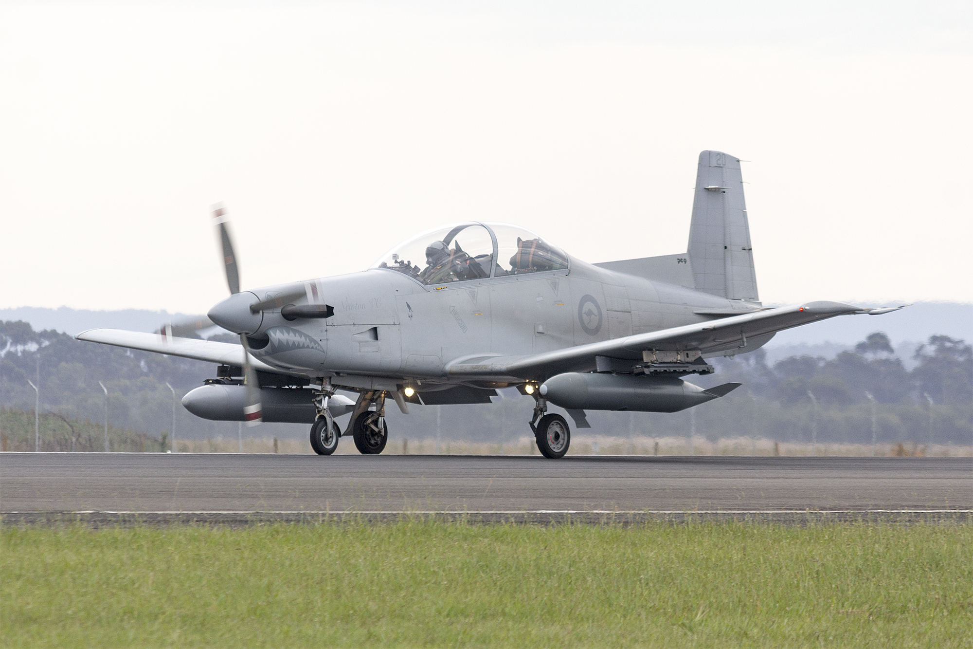 Royal Australian Air Force (A23-020) Pilatus PC-9A landing at the 2015 Australian International Airshow.